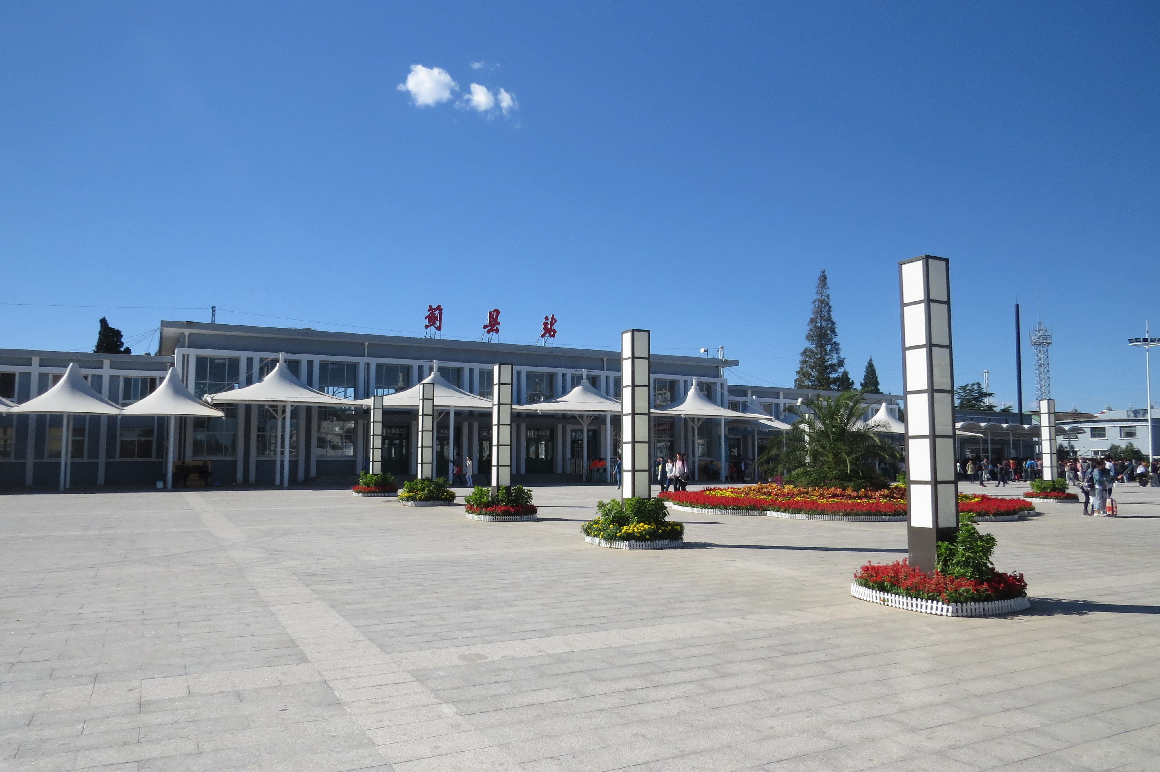 Ticket offices on the left, and entrances on the right.